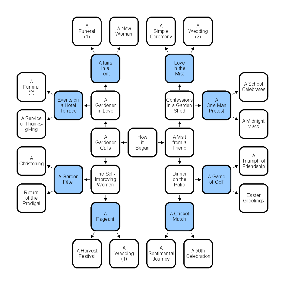 The structure of the play Intimate Exchanges by Alan Ayckbourn. The blue entries are the eight major plot threads of the play. Replacement for File:Intimate Exchanges structure.svg until/unless formatting issues can be resolved